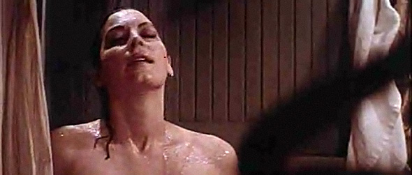 Cropped screenshot of Ava Gardner from the trailer for the film Bhowani Junction.